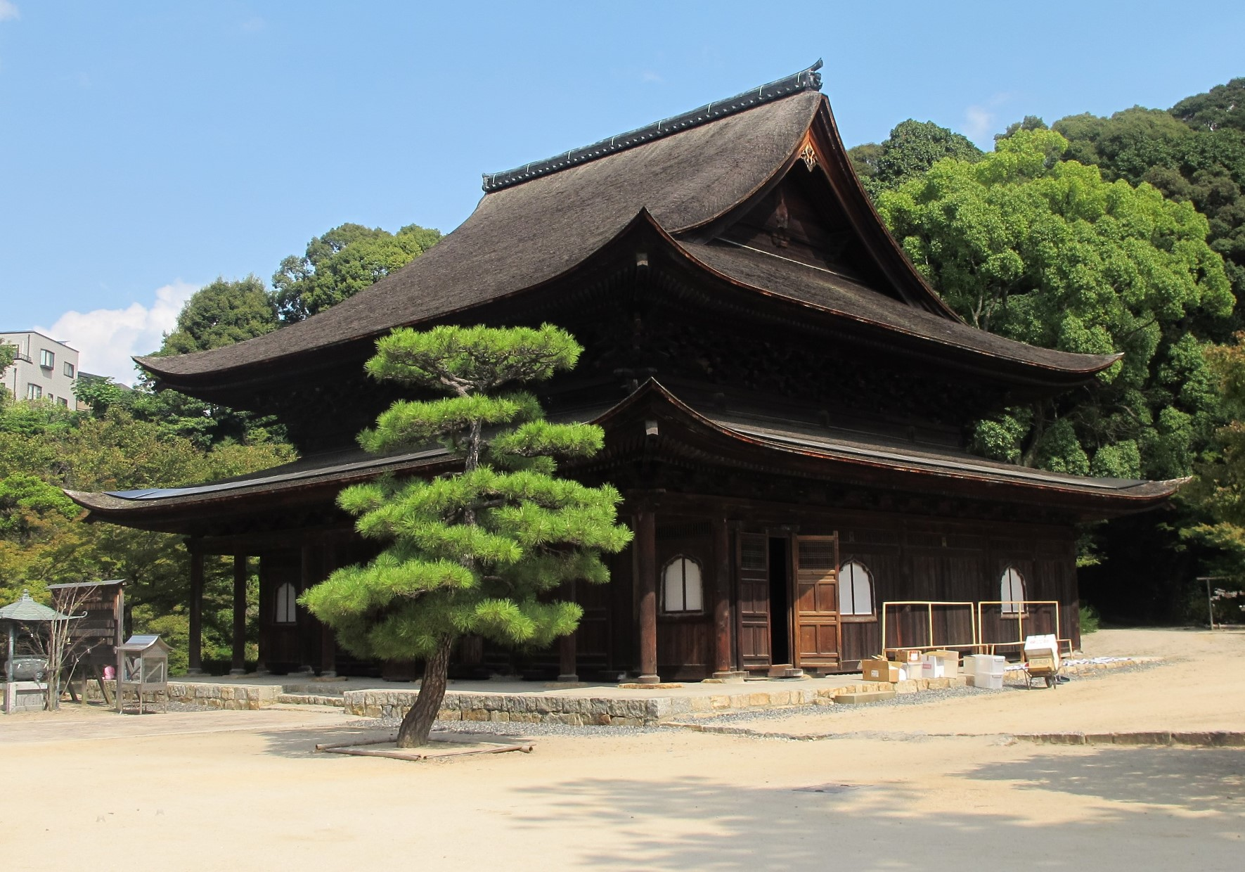 Fudôin Hiroshima Kondô